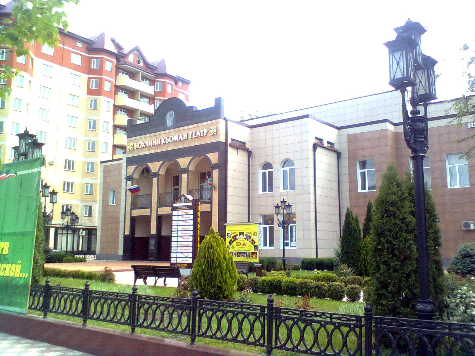 Chechen theater